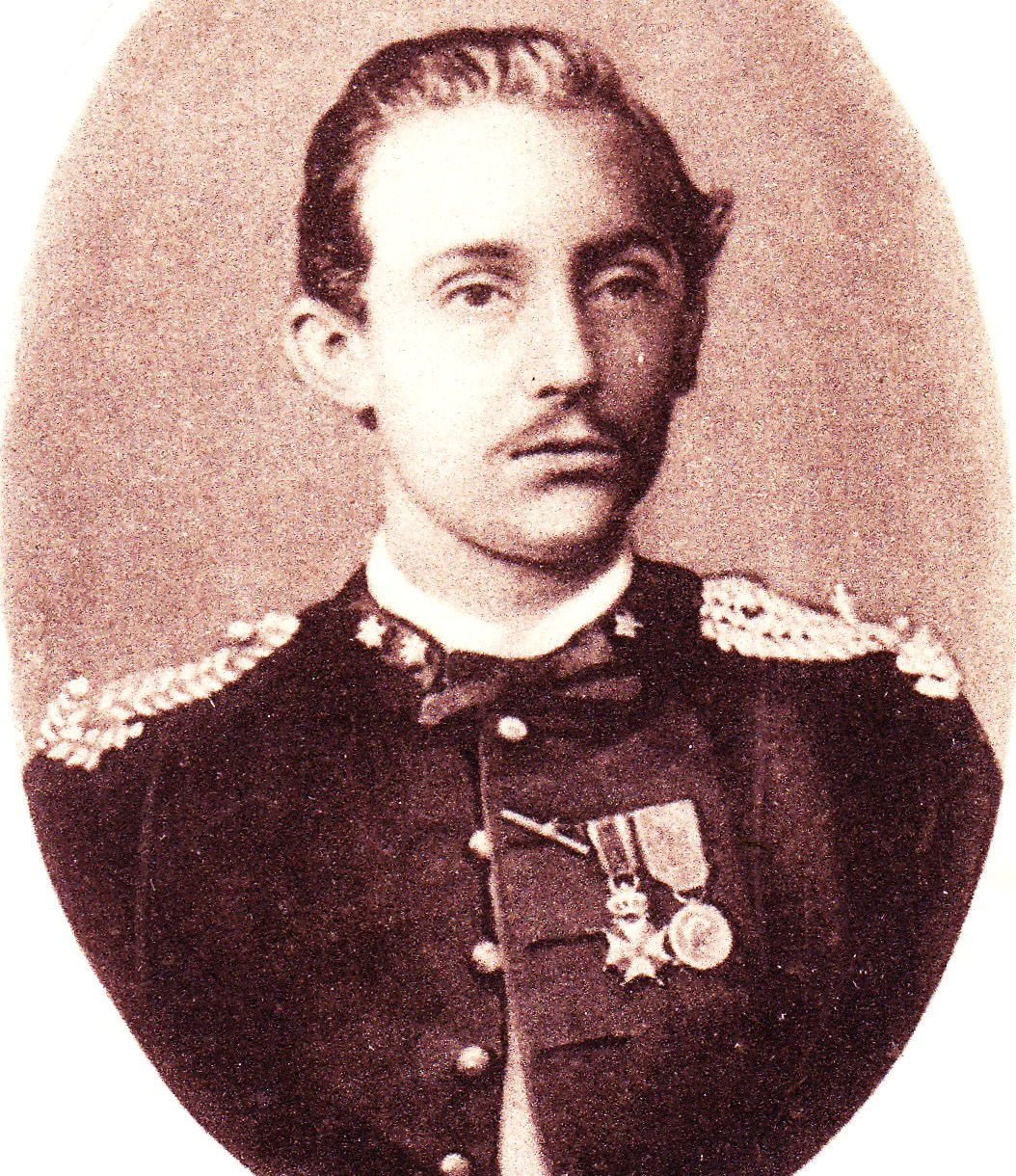 Van Heutsz